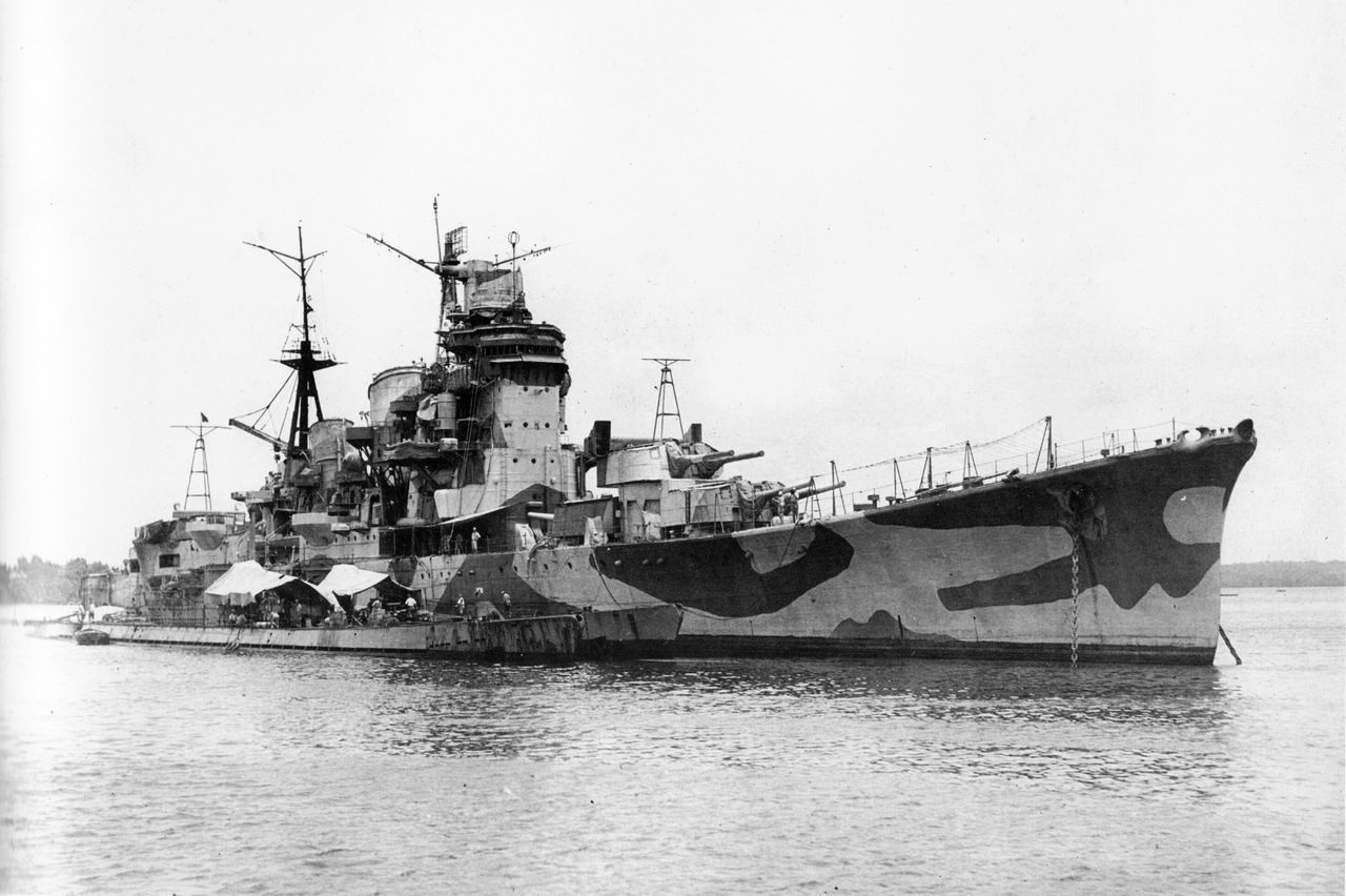 CAPTAIN POWER VISITS DAMAGED JAPANESE CRUISER MYOKO. 25 SEPTEMBER 1945, SINGAPORE. IN MAY 1944, FIVE SHIPS OF THE TWENTY-SIXTH DESTROYER FLOTILLA ATTACHED TO THE BRITISH EAST INDIES FLEET, LED BY HMS SAUMAREZ, WITH CAPTAIN M L POWER, CBE, OBE, DSO AND BAR, AS CAPTAIN (D), SANK THE JAPANESE CRUISER HAGURO IN ONE HOURS ACTION AT THE ENTRANCE TO THE MALACCA STRAIT. WHEN SAUMAREZ ENTERED SINGAPORE NAVAL BASE, CAPTAIN POWER WITH HIS STAFF OFFICERS PAID A VISIT TO MYOKO, SISTER SHIP OF HAGURO, NOW LYING THERE WITH HER STERN BLOWN OFF AFTER THE BATTLE OF THE PHILIPPINES. CROSSING TO THE DECK OF THE MYOKO VIA THE CONNING TOWER OF A GERMAN U-BOAT, CAPTAIN POWER AND HIS PARTY WERE MET BY JAPANESE OFFICERS WHO TOOK THEM ON A COMPREHENSIVE TOUR OF THE SHIP. The damaged Japanese cruiser MYOKO. The 2 U-boats tied up alongside were I-501 (ex German U-181) and I-502 (ex German U-862), also captured at Singapore.